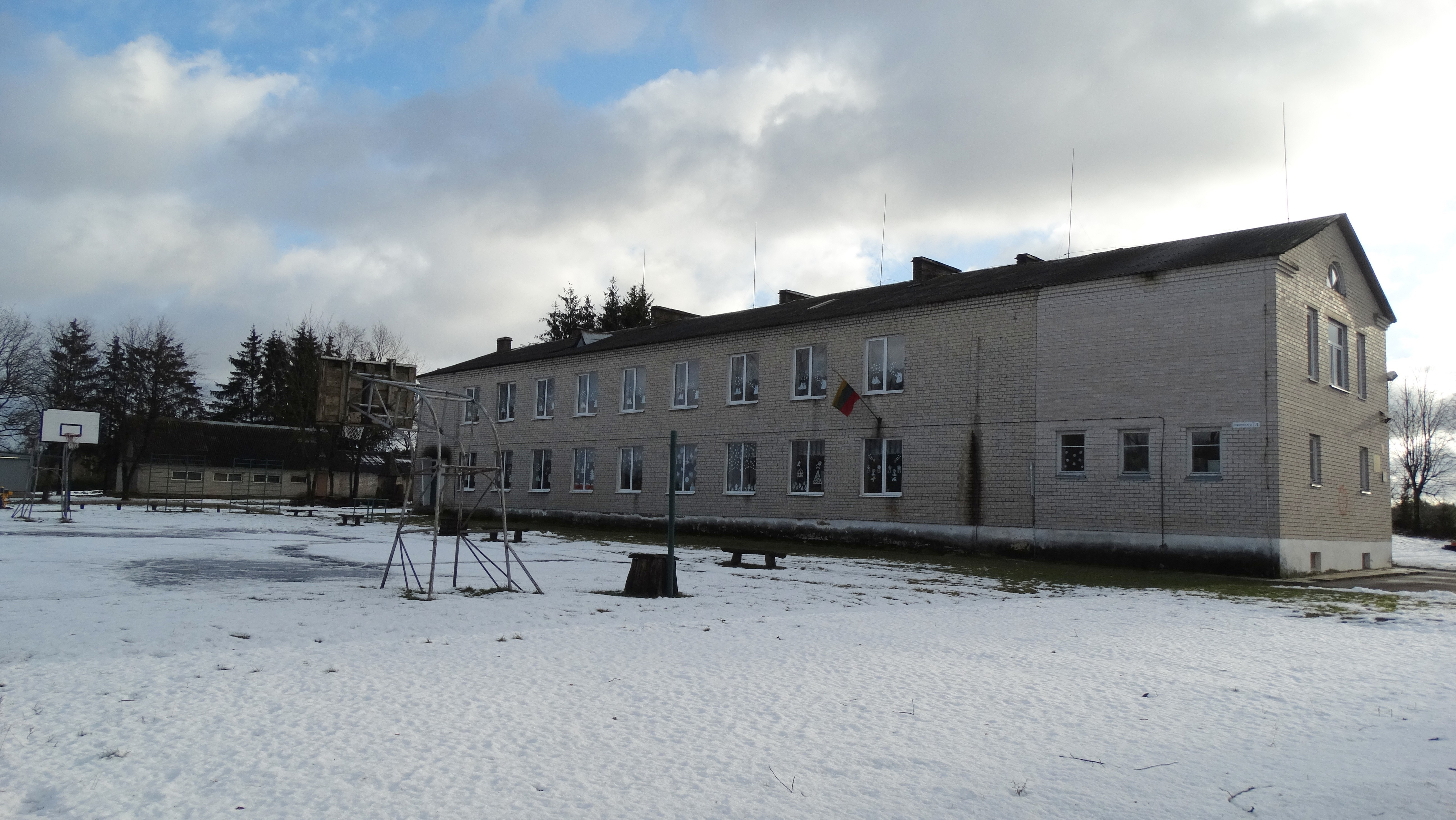 Basic School, Čekoniškės, Vilnius district, Lithuania